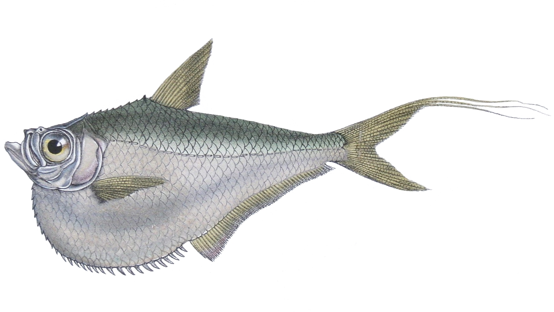 Pristigaster phaeton Cuv. Val. = Pristigaster cayana Cuvier, 1829